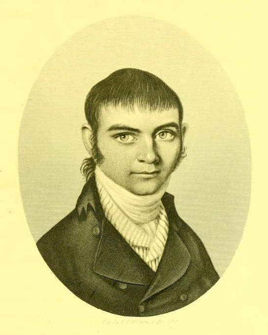 Portrait of Thomas Amis, circa 1790, Halifax County, North Carolina